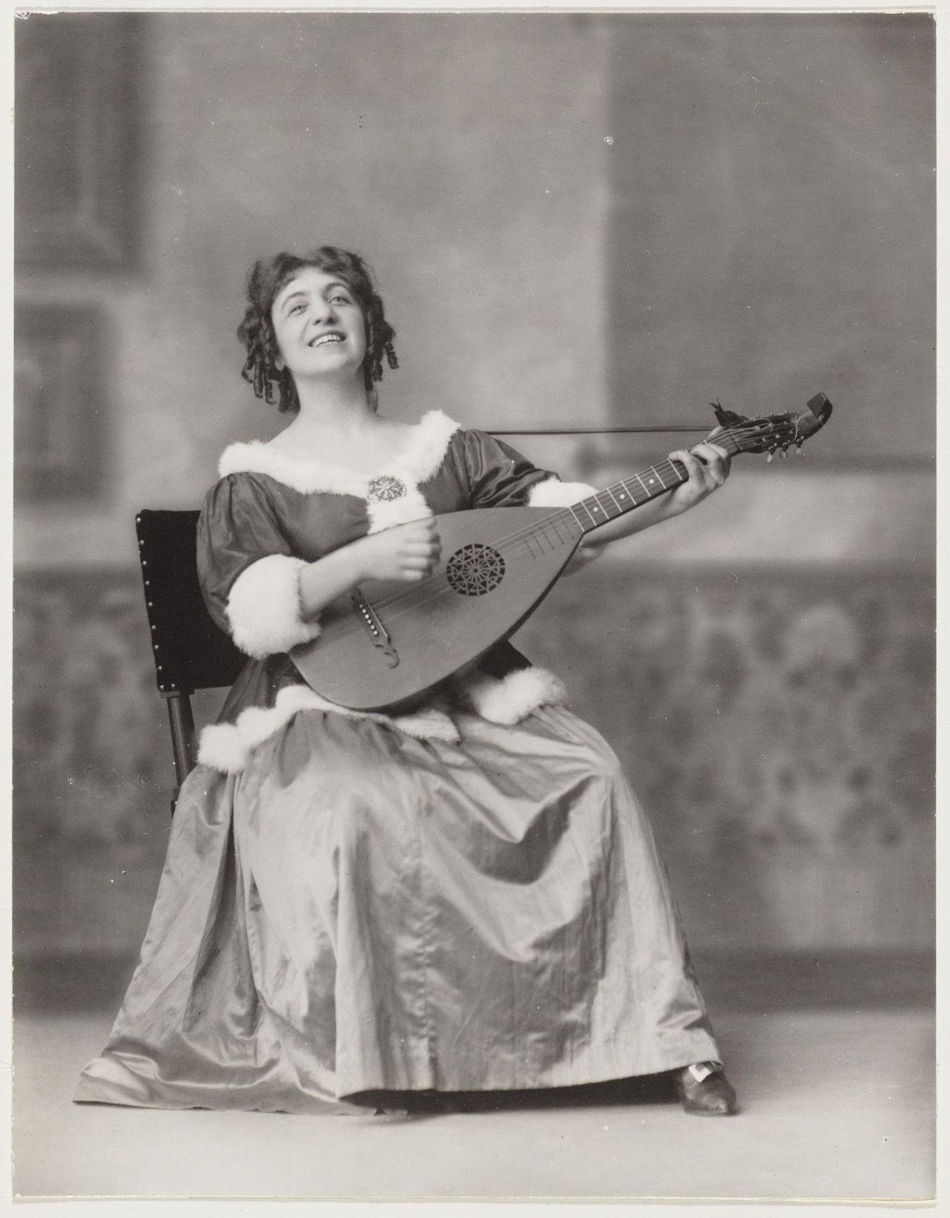 Photograph of Dutch singer Antoinette van Dijk by Jacob Merkelbach (1877-1942)